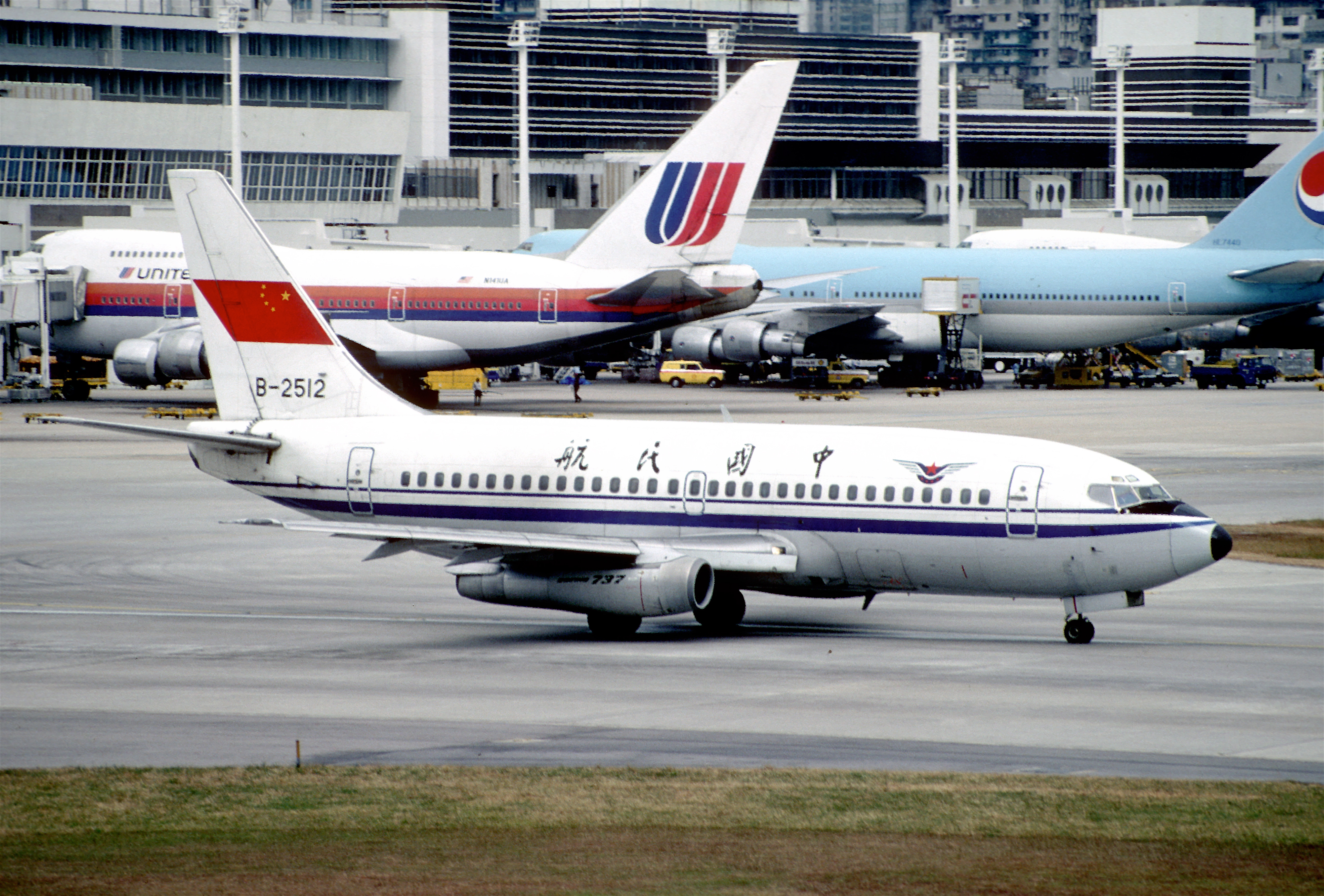 CAAC Boeing 737-2T4; B-2512, HKG, December 1990/ CEN